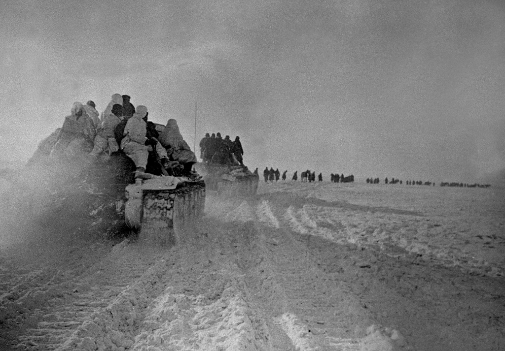 “Great Patriotic War of 1941-45”. Soviet army troops advance in the area of Boguchar. South-Western Front. The Great Patriotic War of 1941-45.